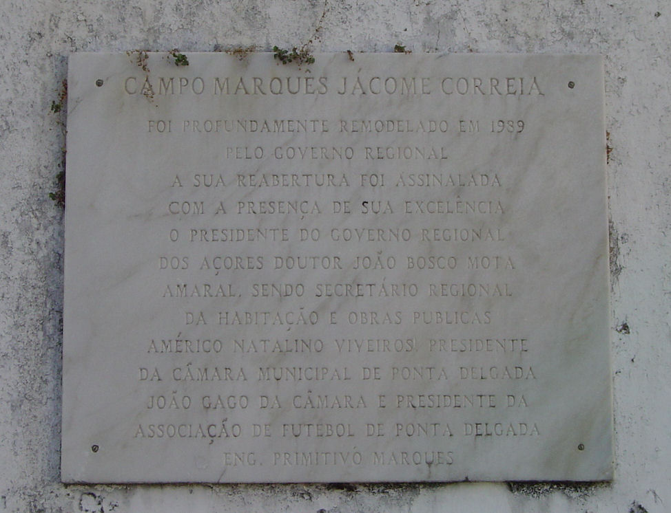 Campo Municipal Jâcome Correia - plaque. The stadium is used by Capelense Sport Club and Clube União Micaelense, Portuguese football clubs based in Ponta Delgada on the island of São Miguel in the Azores.